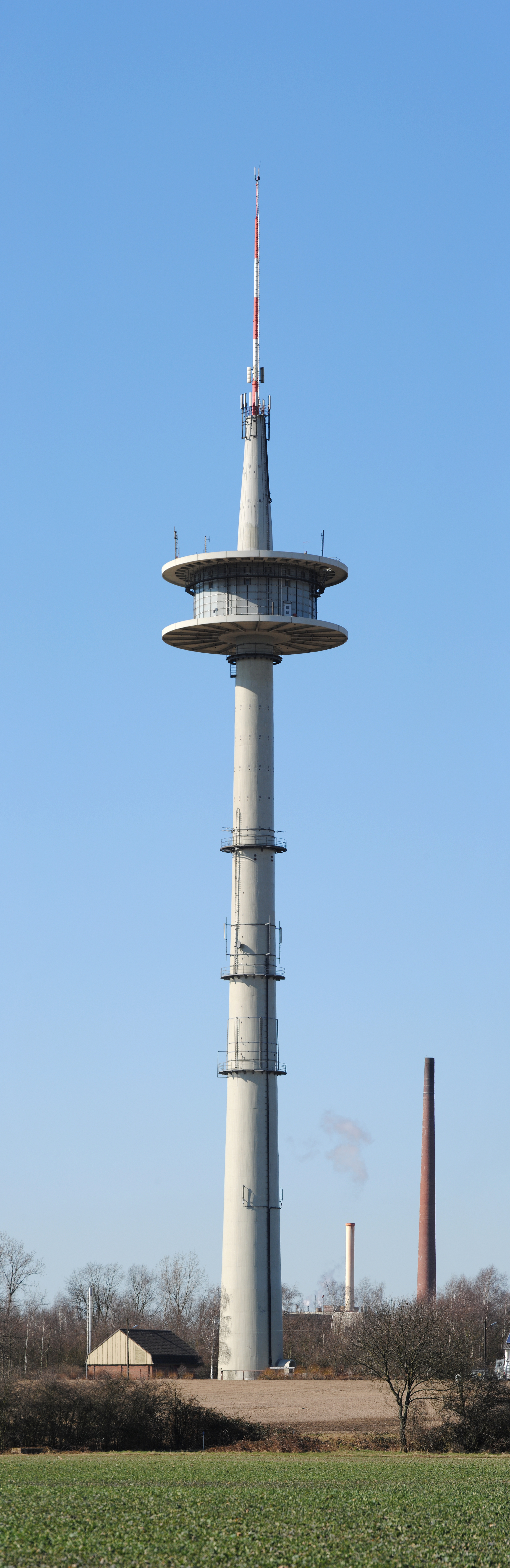 Panorama view from east on the telecommunication tower of Moers (Germany).